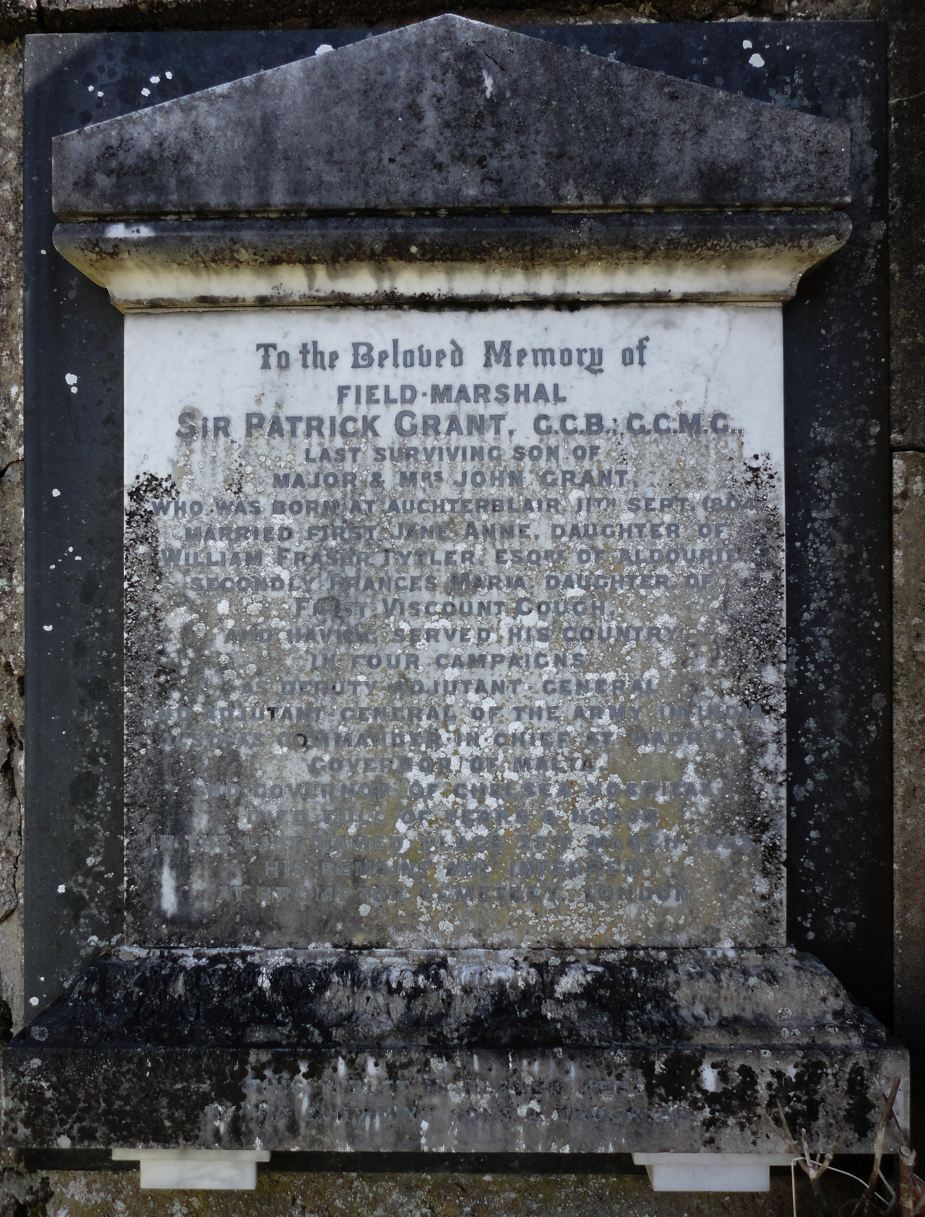 Duthil Old Parish Church and Churchyard - Grave of the family of Field Marshal Sir Patrick Grant, GCB GCMG (1804–1895)